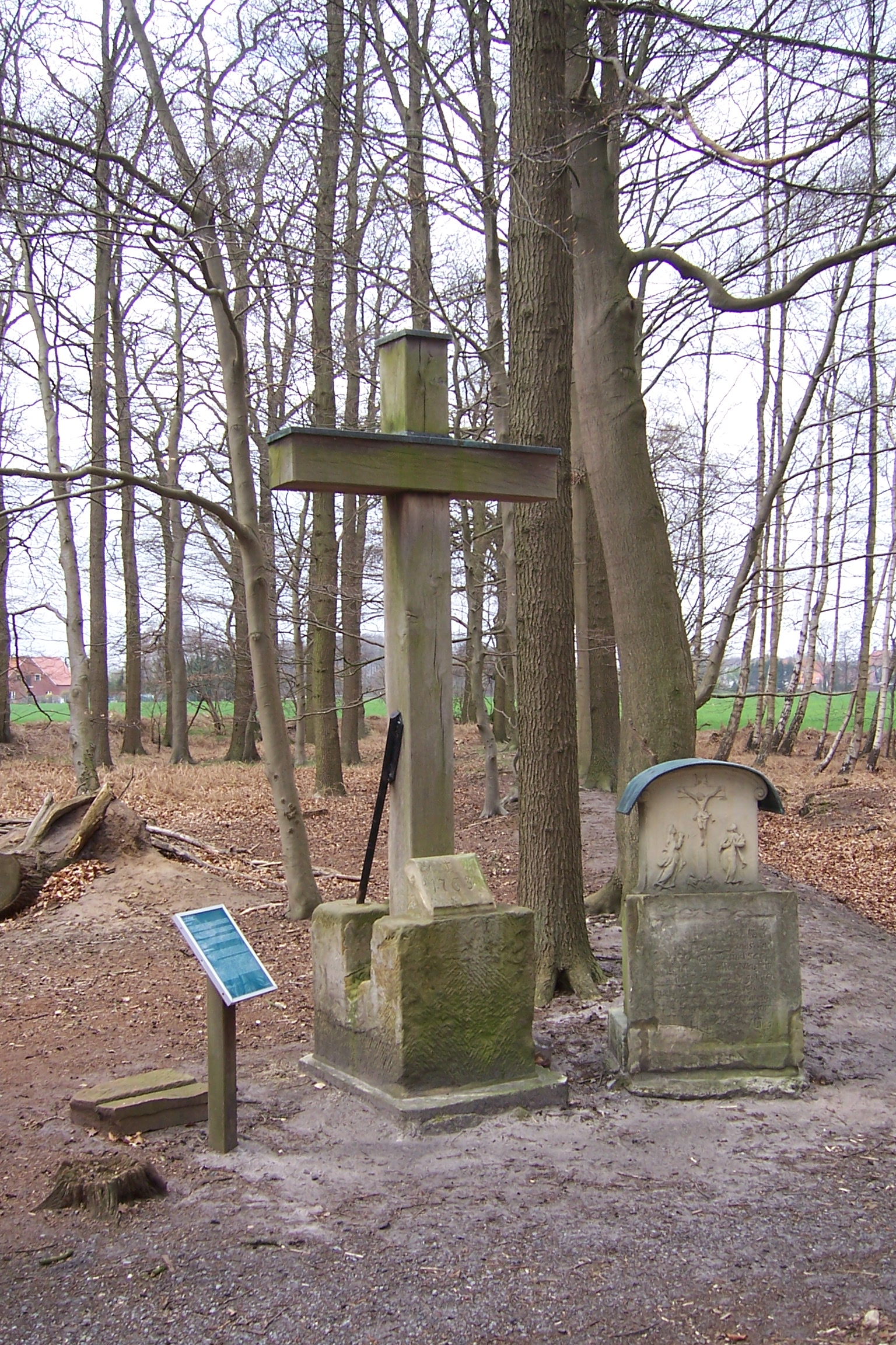 Plague pit from 1666 in Welbergen, NRW, Germany.